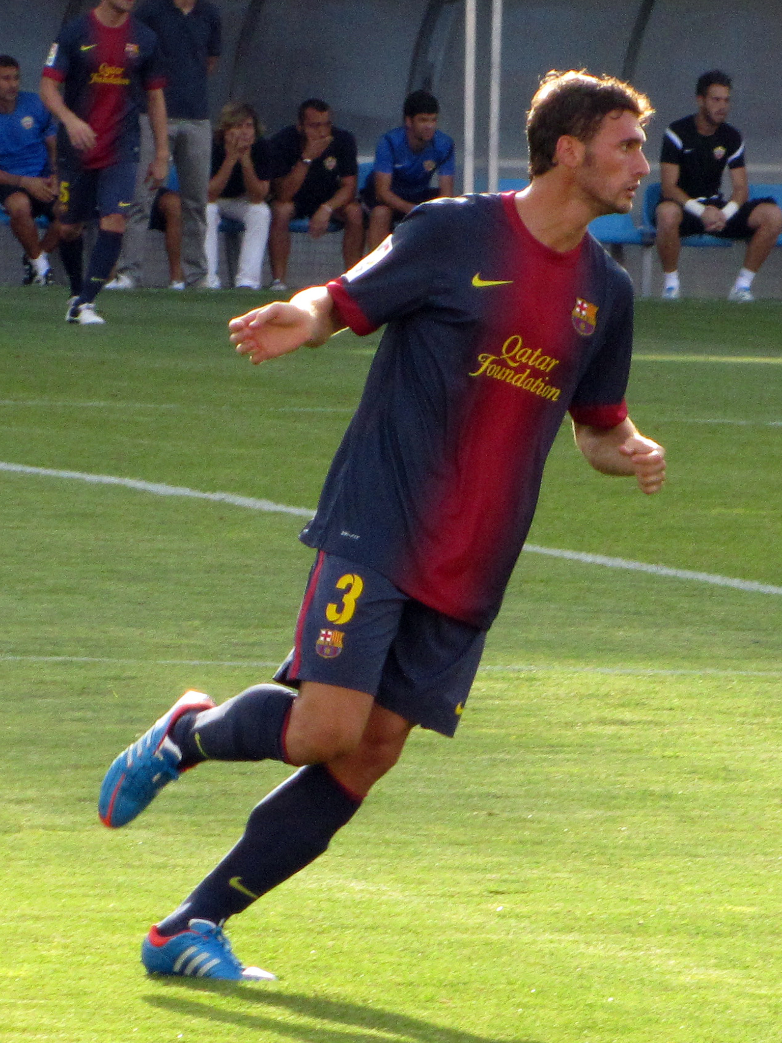 FC Barcelona B player Sergi Gómez in the 2012-13 home kit. Foto realizada por Javier Segura (@castroquini)